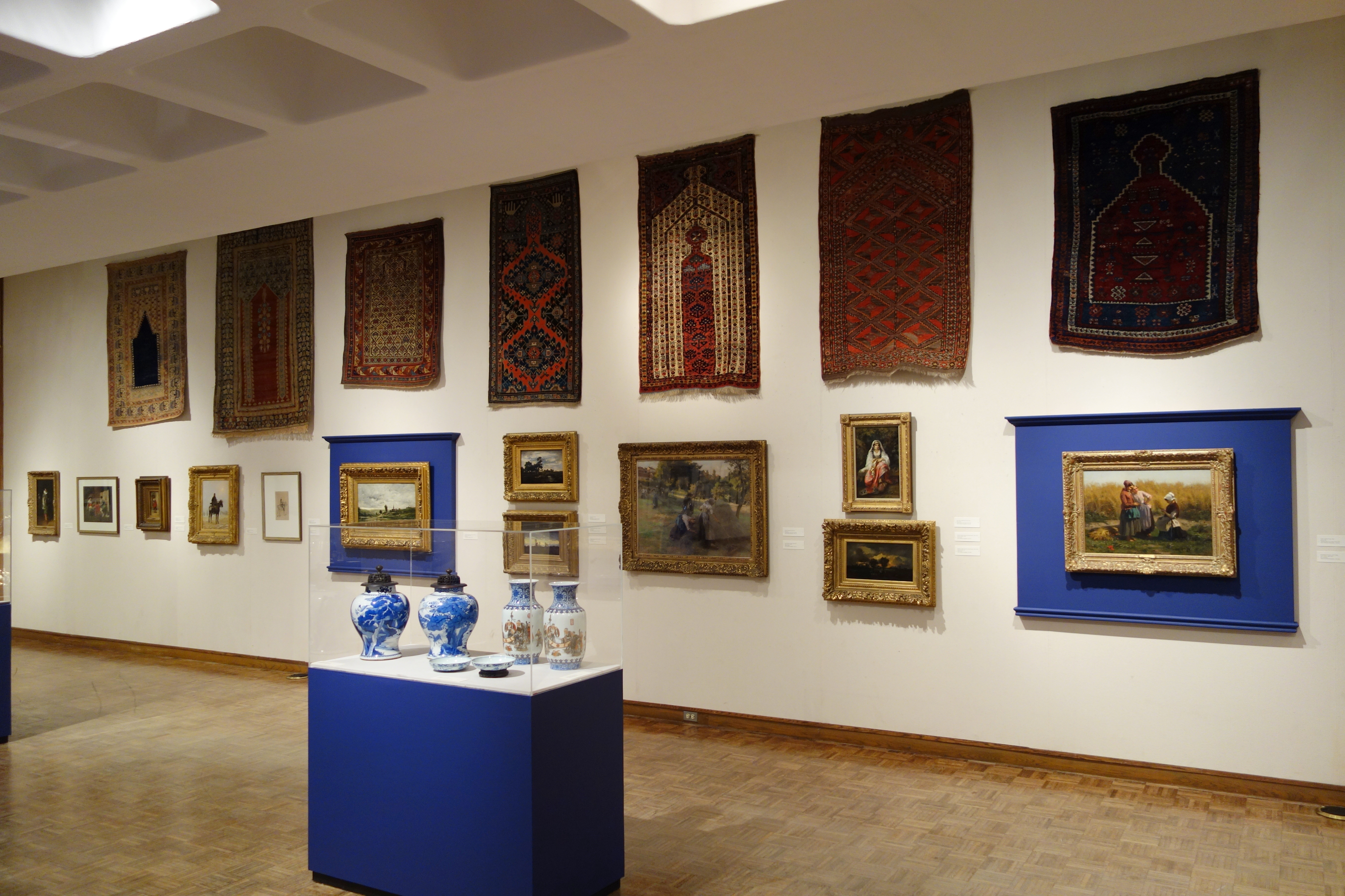 Interior view of the Huntington Museum of Art, Huntington, West Virginia, USA. Artwork is in the public domain because the artists died more than 70 years ago.